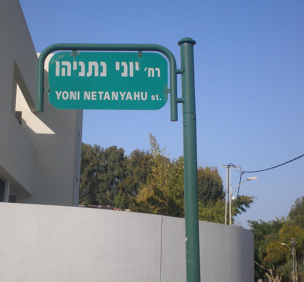 Yoni Netanyahu street, Ramat Hasharon